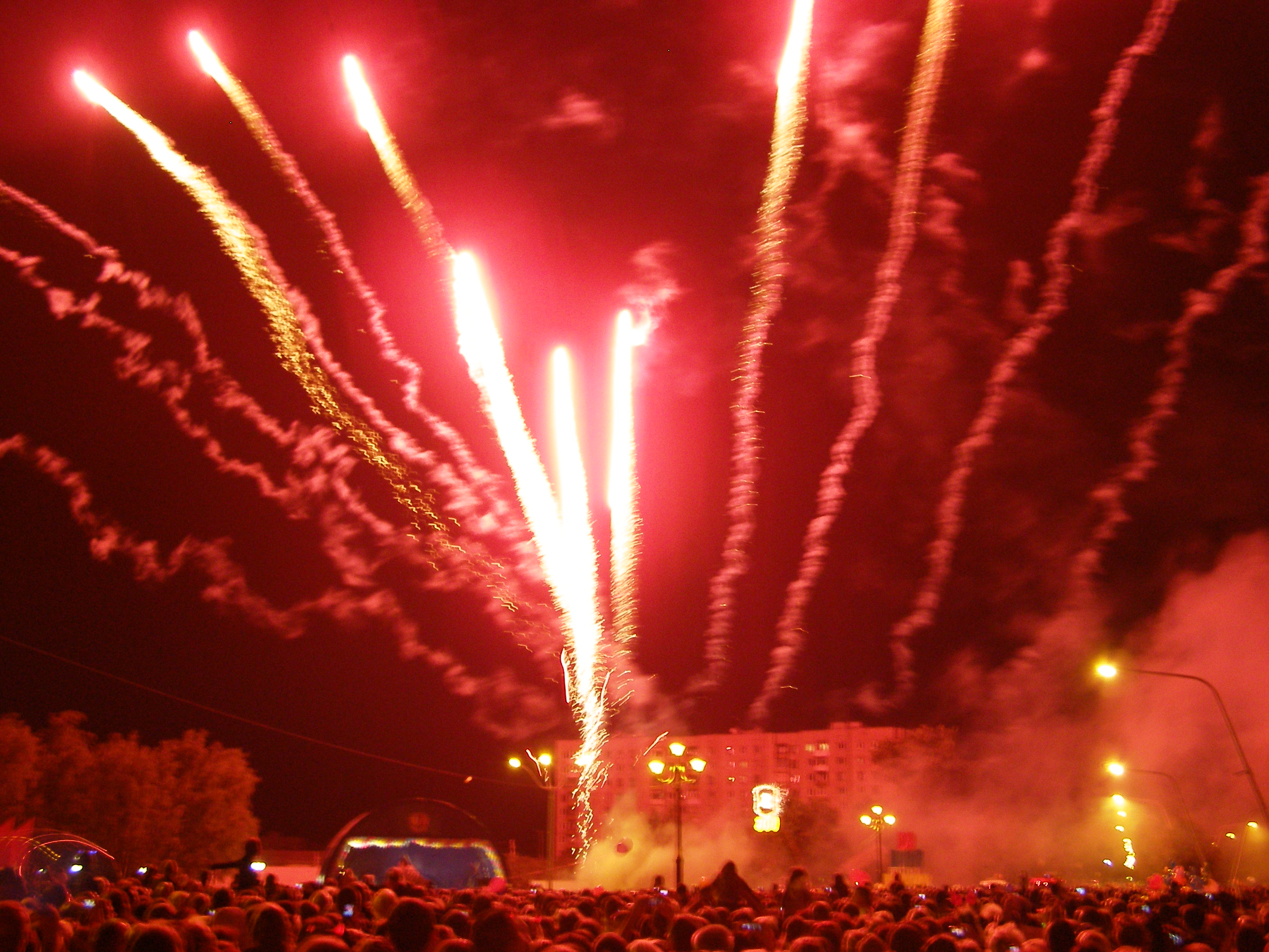 City Day Lisichansk